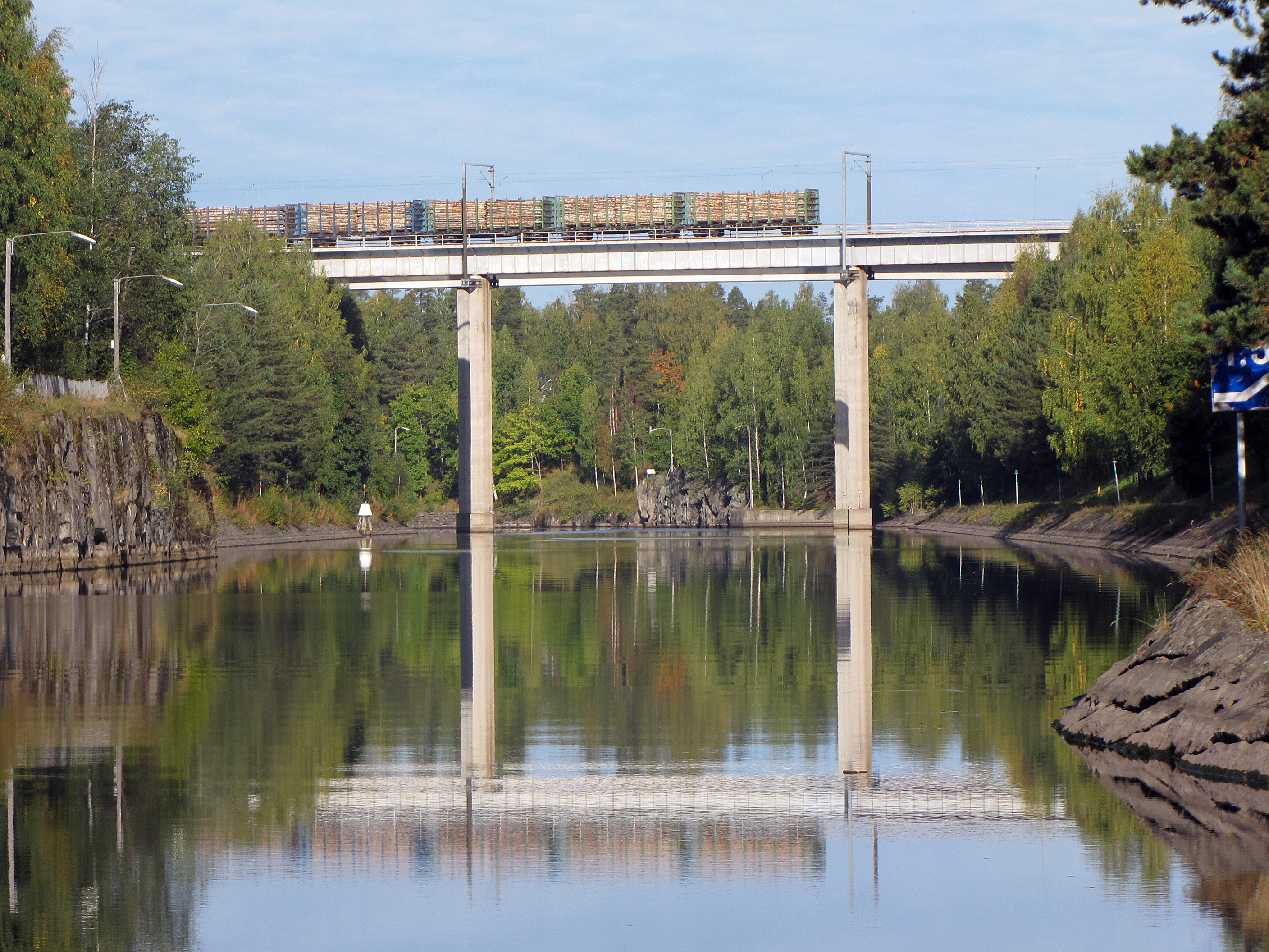 A timber train crosses the Saimaa Canal on Lauritsala bridge in Finland.